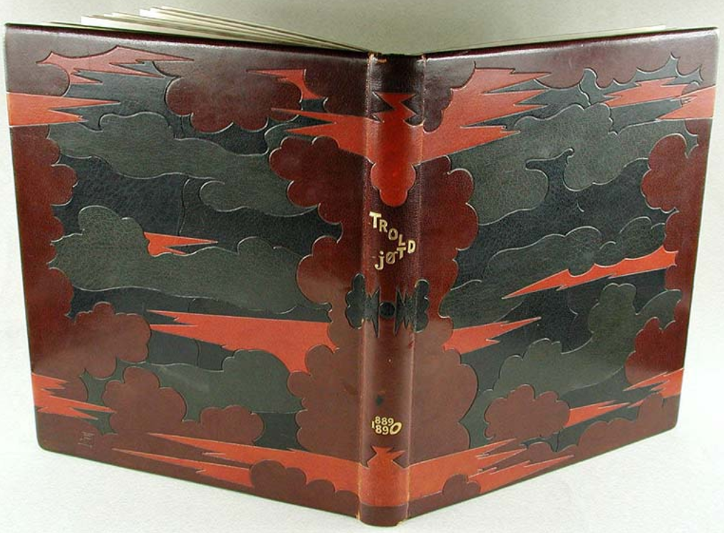 Book bound ca. 1900 by the danish bookbinder Anker Kyster (1864-1939)